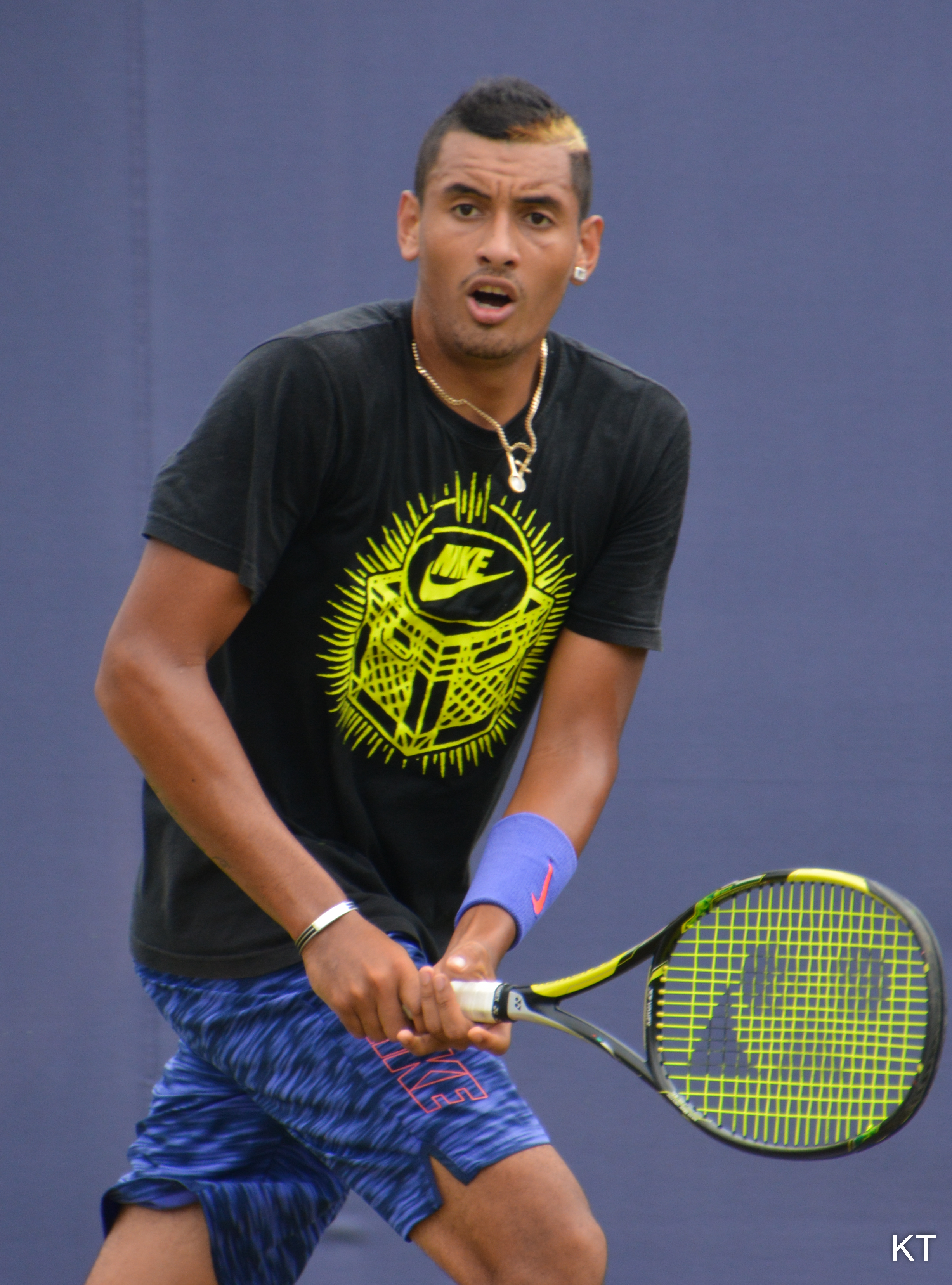 On the practice court. Aegon Championships, Queen's Club, June 2015.